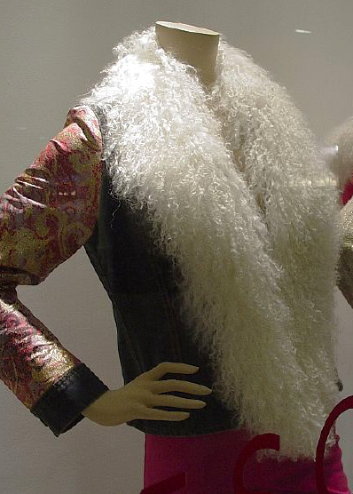 Boa